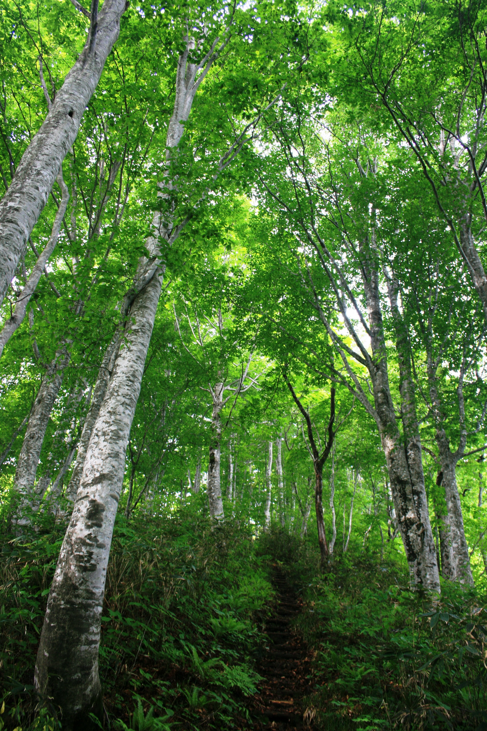 Forest of Fagus crenata in Mount Daimon, Toyama Prefecture, Japan